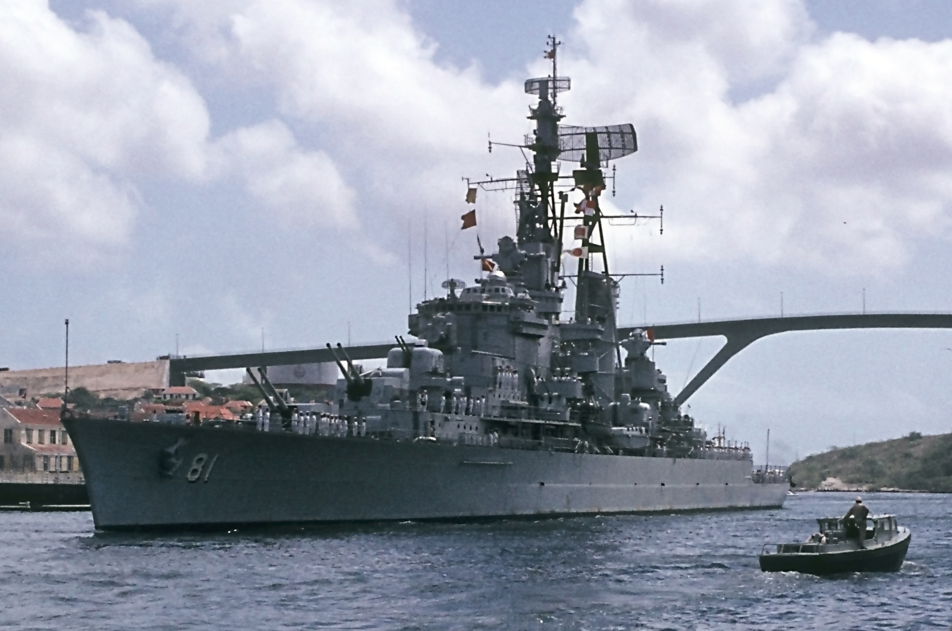 After being sold to Peru, the 'Almirante Grau' made a stop at Curaçao. On the photo the cruiser is leaving the St. Anna Bay in Willemstad on the way to its new home port of Callao, in Peru.